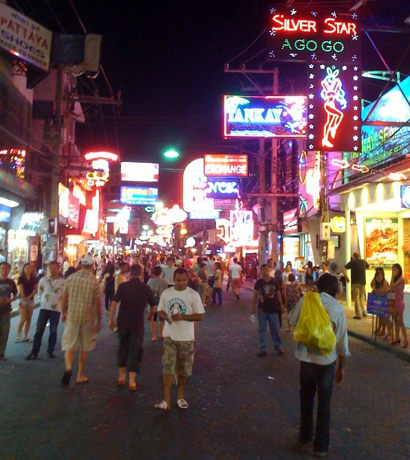 A view, March 2010, Walking Street, Pattaya, Thailand